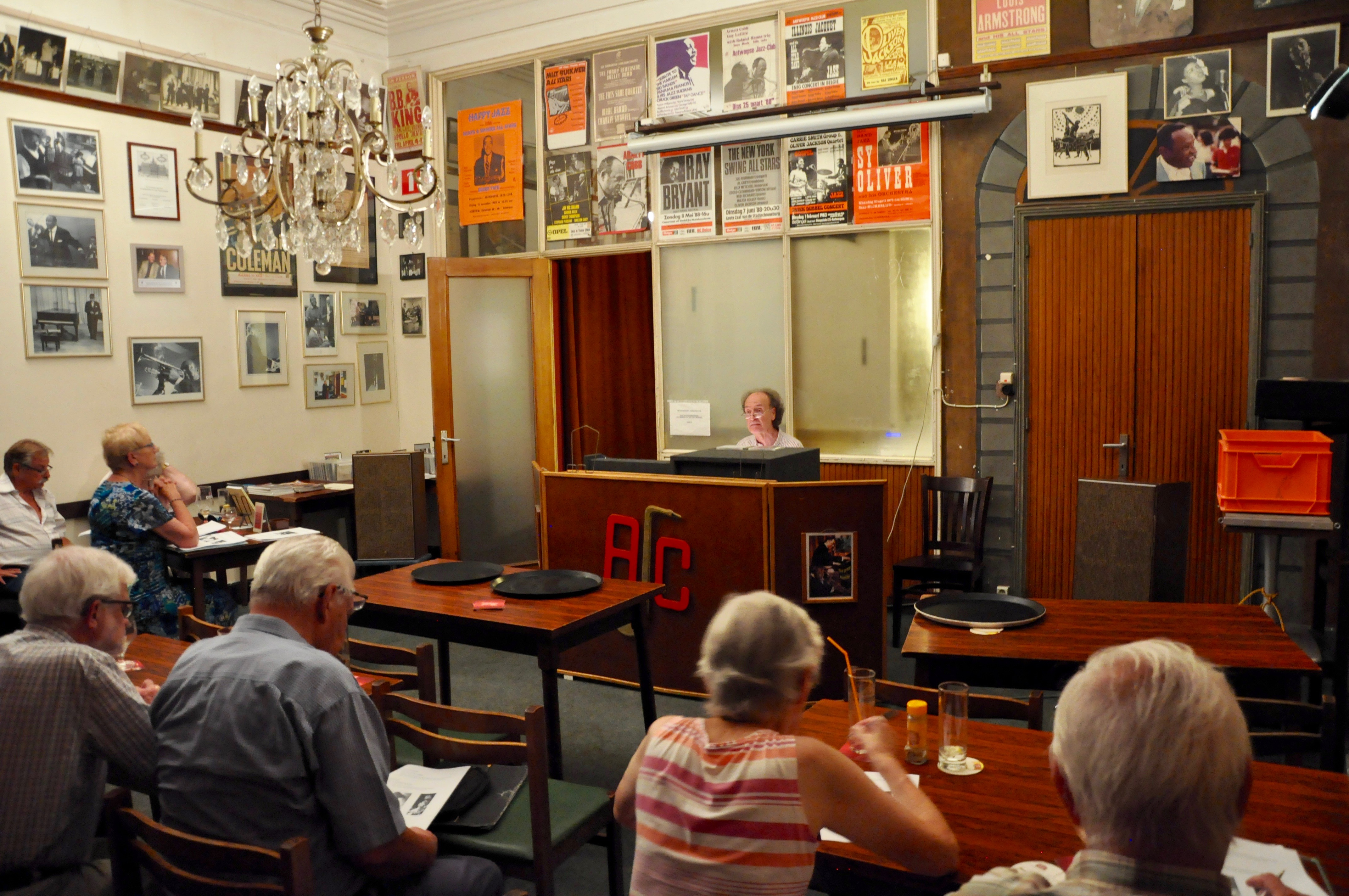 Guy Van Looy presenting his multimedia blues presentation entitled "Portraits in Blues 57: Het SPIVEY PLATENLABEL" (which can be translated as The SPIVEY RECORD LABEL) at the Antwerp Jazz Club (AJC) on 13 September 2016. This picture was taken approaching the end of the lecture, around 21:52PM. Marc Vanistendael can be seen in the far left of the picture. In the building "Ambachtshuis de Mouwe" (alternative names: "de gulde Mouwe" or "het Cuypershuys"), a protected monument.